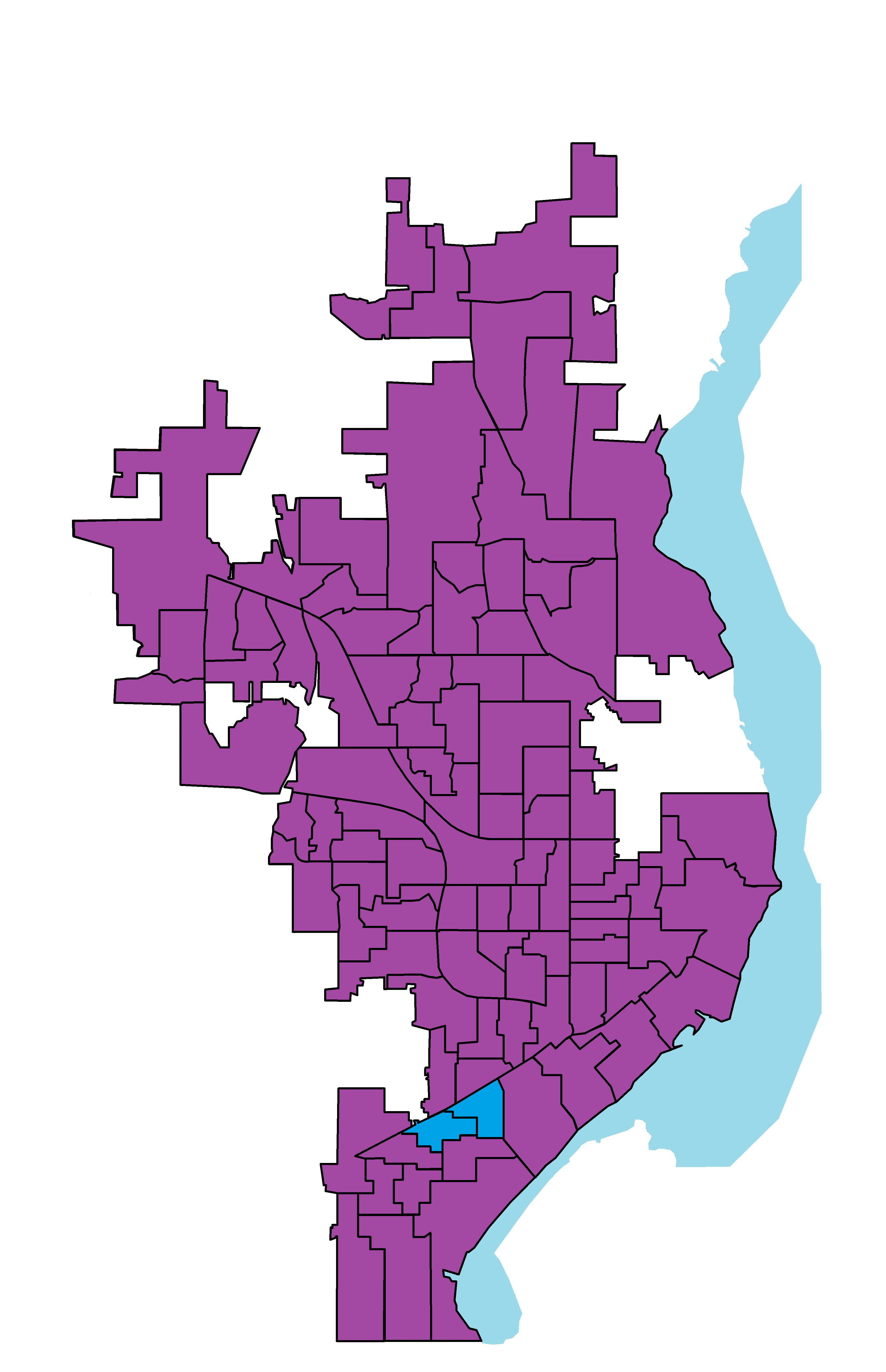 Precincts in Purple denote those won by Jim Ardis, and those in Blue by General Butler.